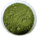 A full bowl of unprepared matcha (only a few teaspoons of this powder would be used to prepare a serving). Original file at Romanian Wikipedia Imagine:Matcha.gif.